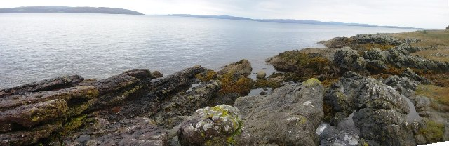 Hutton's Unconformity at Newton Shore on the Isle of Arran. This is one of Scotland's foremost geological sites, first observed by geologist James Hutton in the 18th century. Here, younger sandstone rocks dip gently seaward and lie on top of older Cambrian schists which dip steeply inland. More background information the Father of Modern Geology and his Theory of The Earth at Arran Museum's website